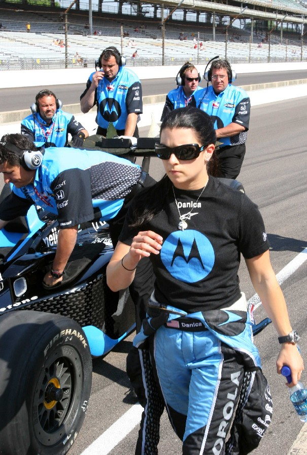 Danica Patrick on Pole Day at Indy, 2007. Photo by Tim Wohlford